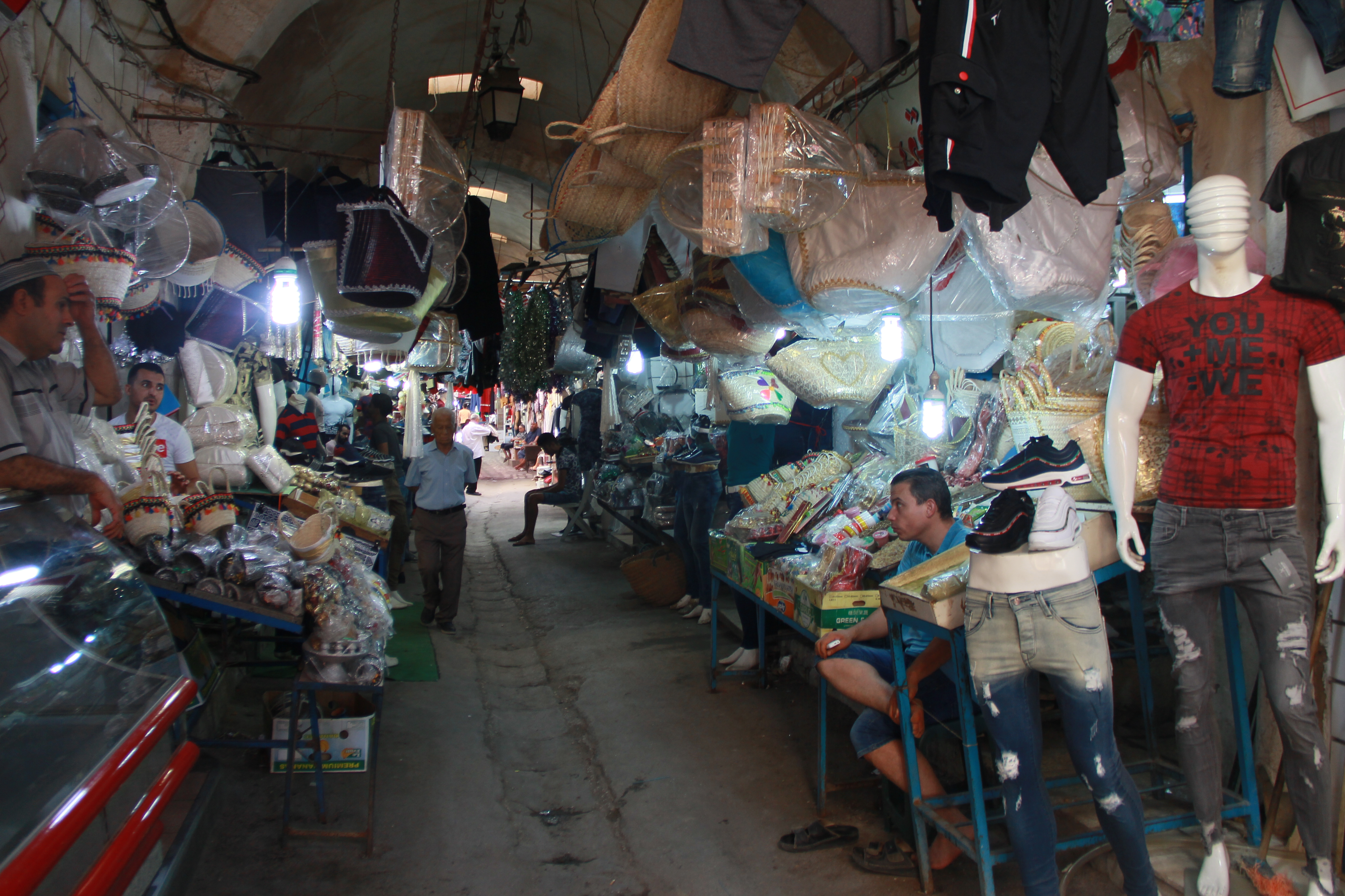 سوق الكامور